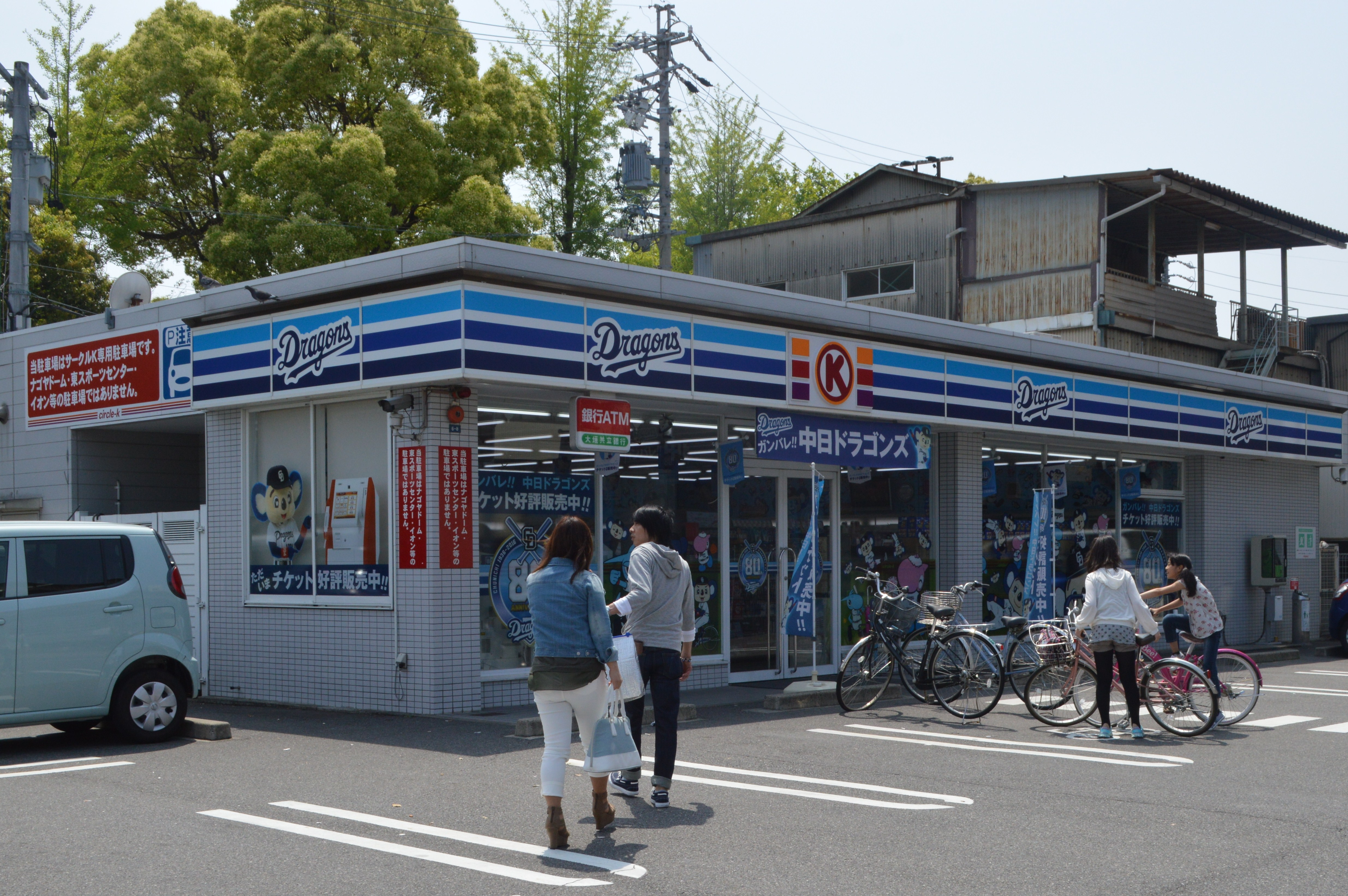 愛知県名古屋市東区のナゴヤドーム近くにある「サークルKナゴヤドーム前店」 中日ドラゴンズを応援